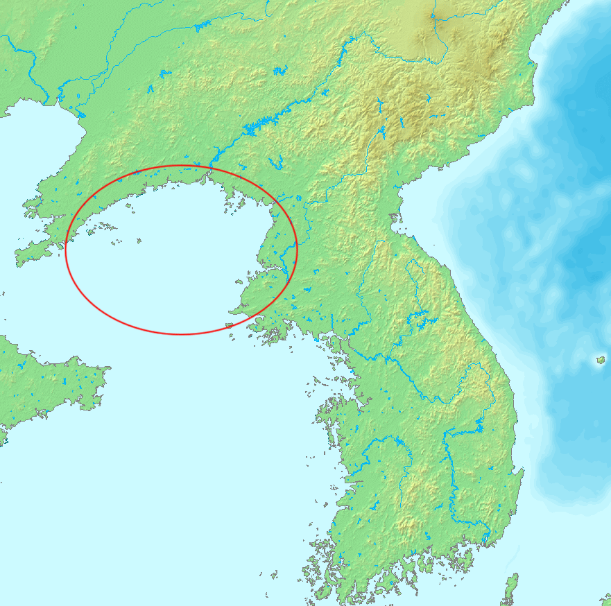 Location of Korea Bay